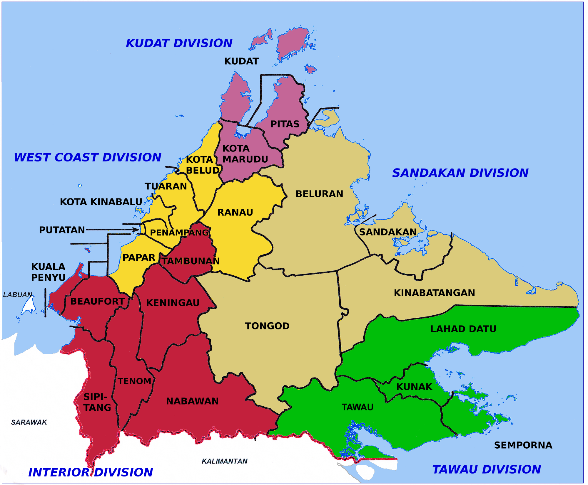 Sabah: Divisons and Districts